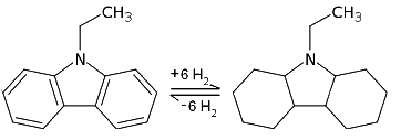 Reaction N-Carbazol / Perhydro-N-Carbazol